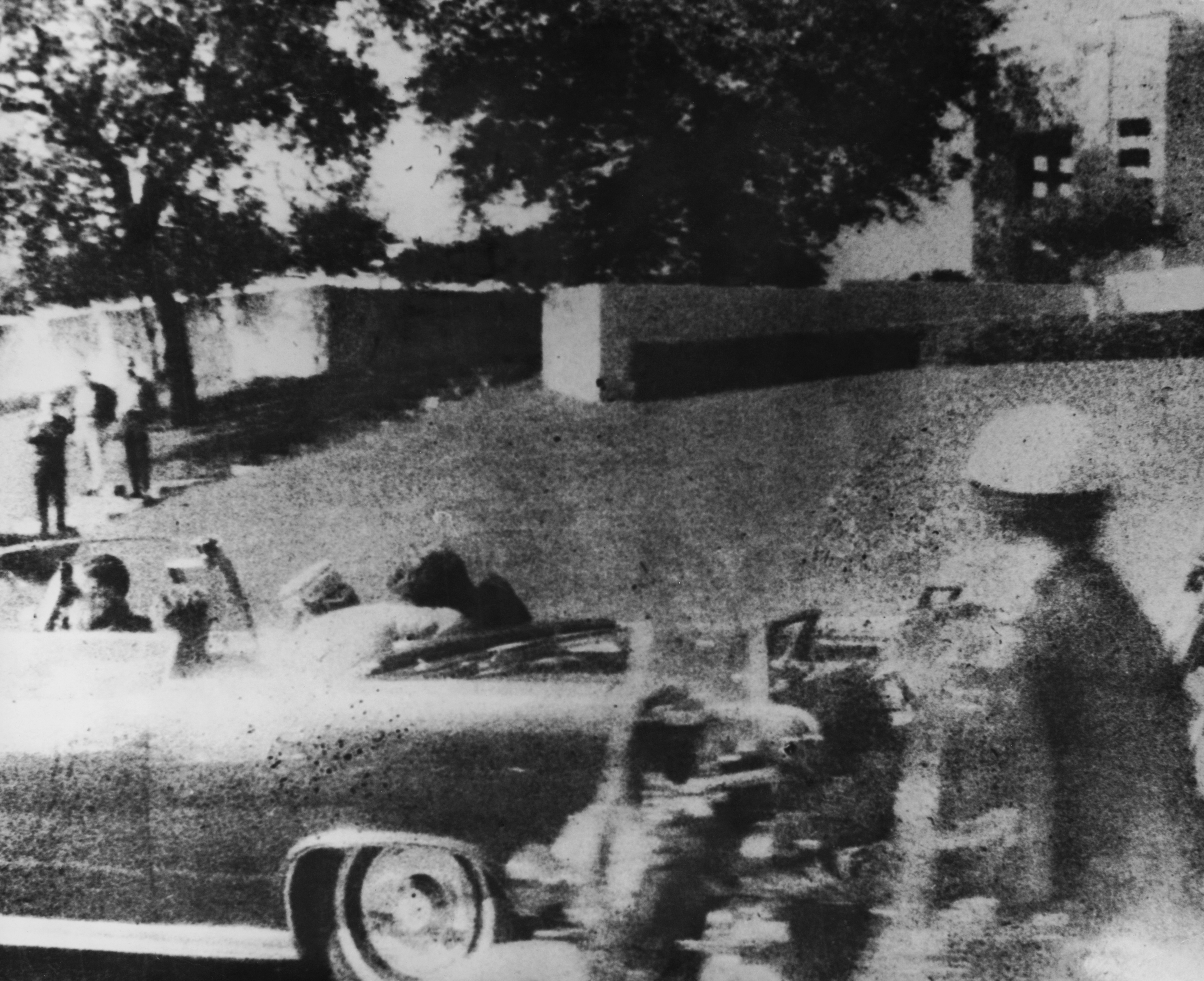 Polaroid photograph of the assassination of President John F. Kennedy, taken an estimated one-sixth of a second after the fatal head shot. (Friday, November 22, 1963, Elm Street, Dealey Plaza, Dallas, Texas)